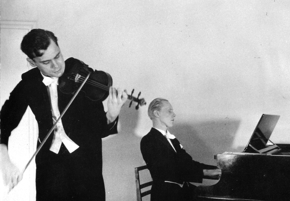 Photograph of the Finnish violinist Paavo Rautio (1924–2005) and pianist Timo Mäkinen (1919–2006) performing.